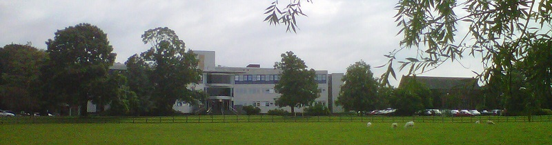 Aldlerley House at Alderley Park, Cheshire